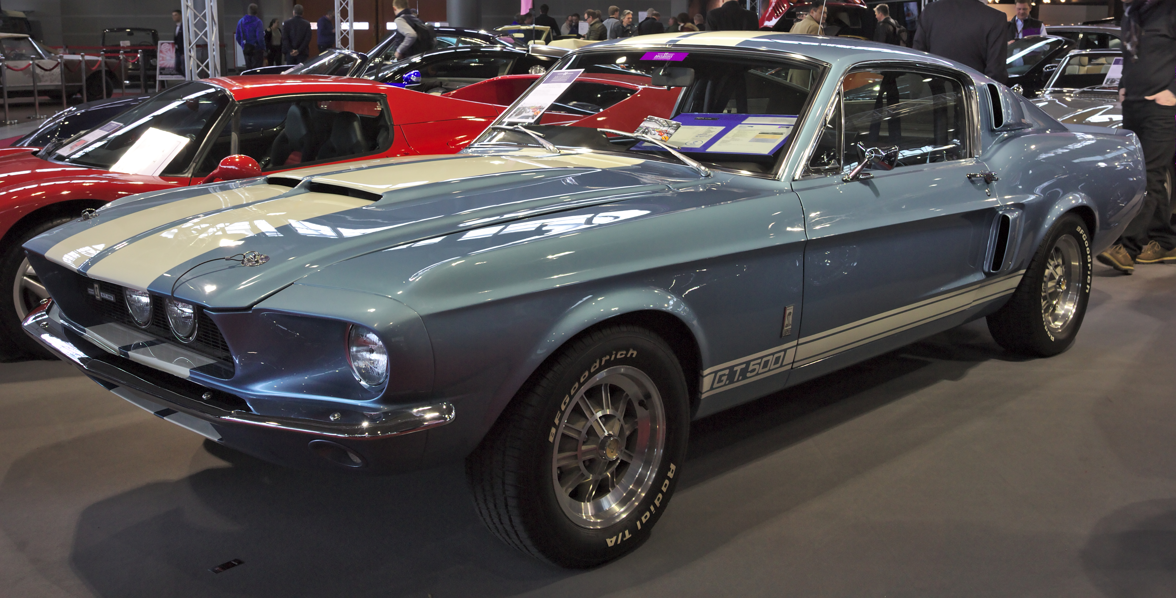 Ford Mustang Shelby G.T. 500 at Retro Classics 2018